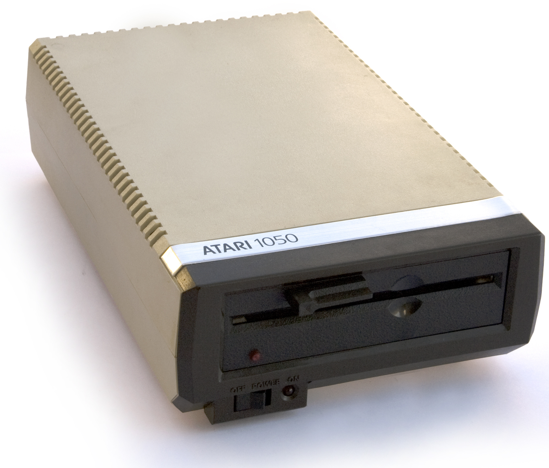 Atari 1050 5.25 inch floppy disk drive